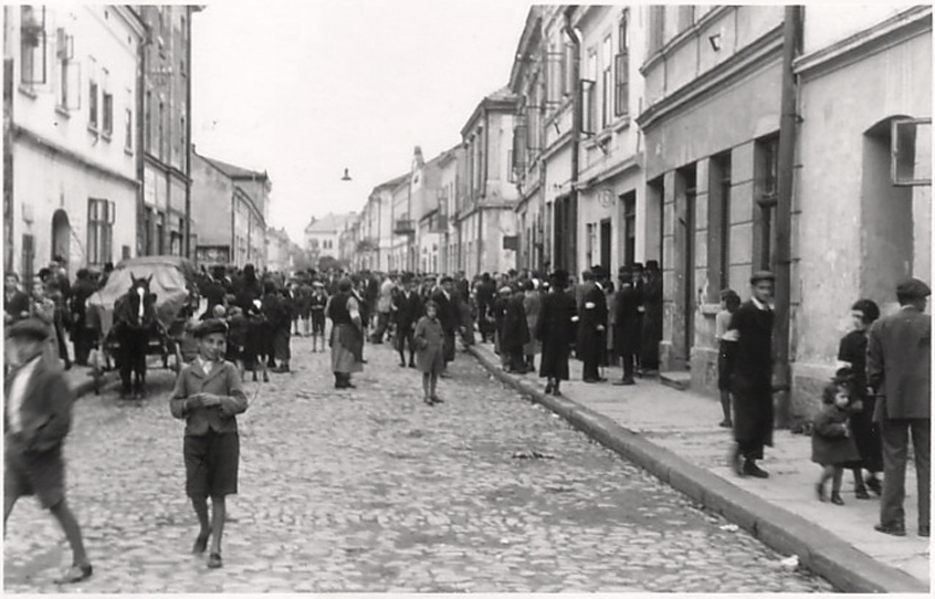 Jewish street in newly established Holocaust ghetto in Nowy Sącz in occupied Poland. Circa 1941.